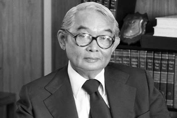 Thai Prime Minister Kukrit Pramoj in 1974, by Norman Peagam